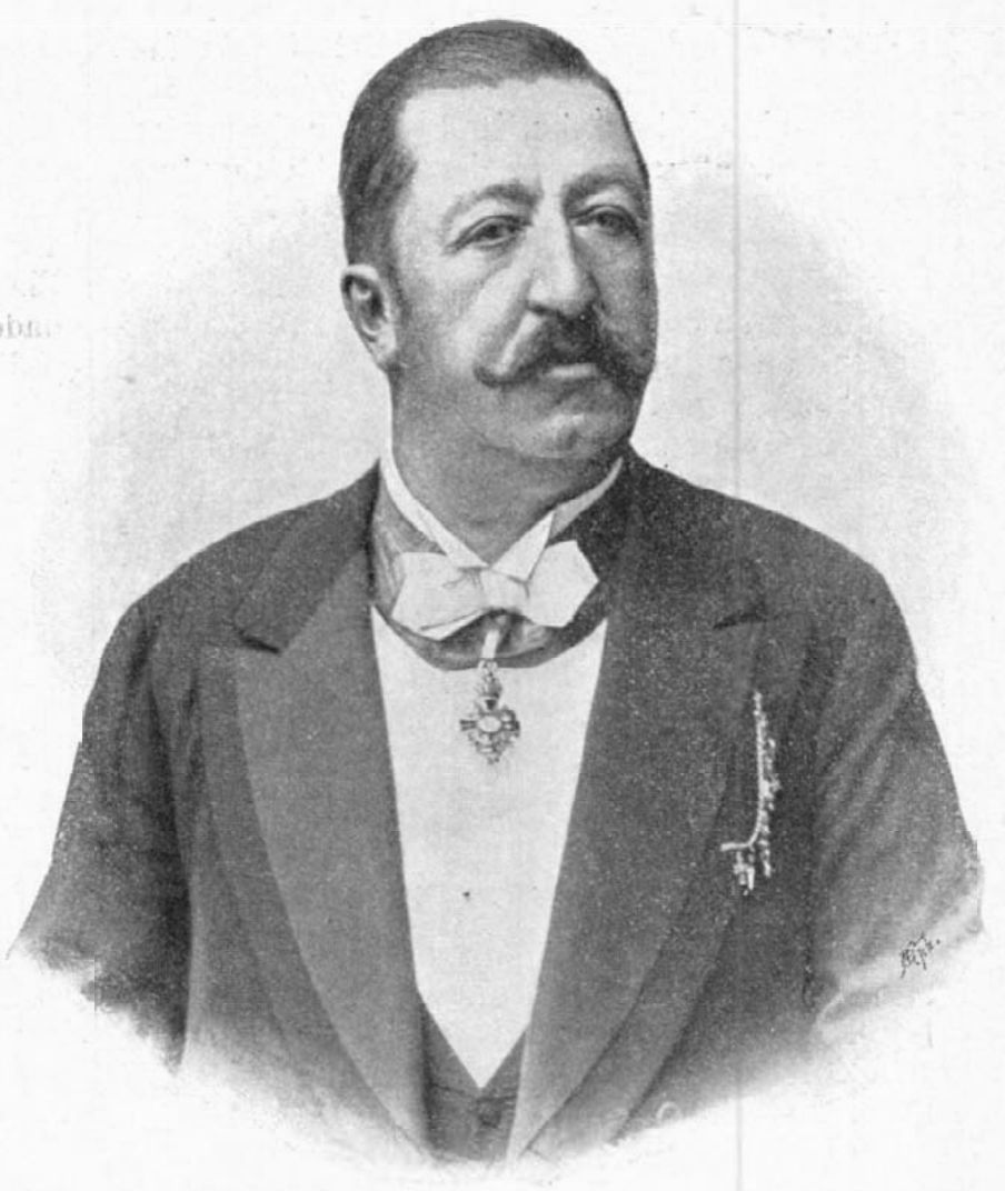 Gusztáv Emich (1843–1911) publishers, zoologist